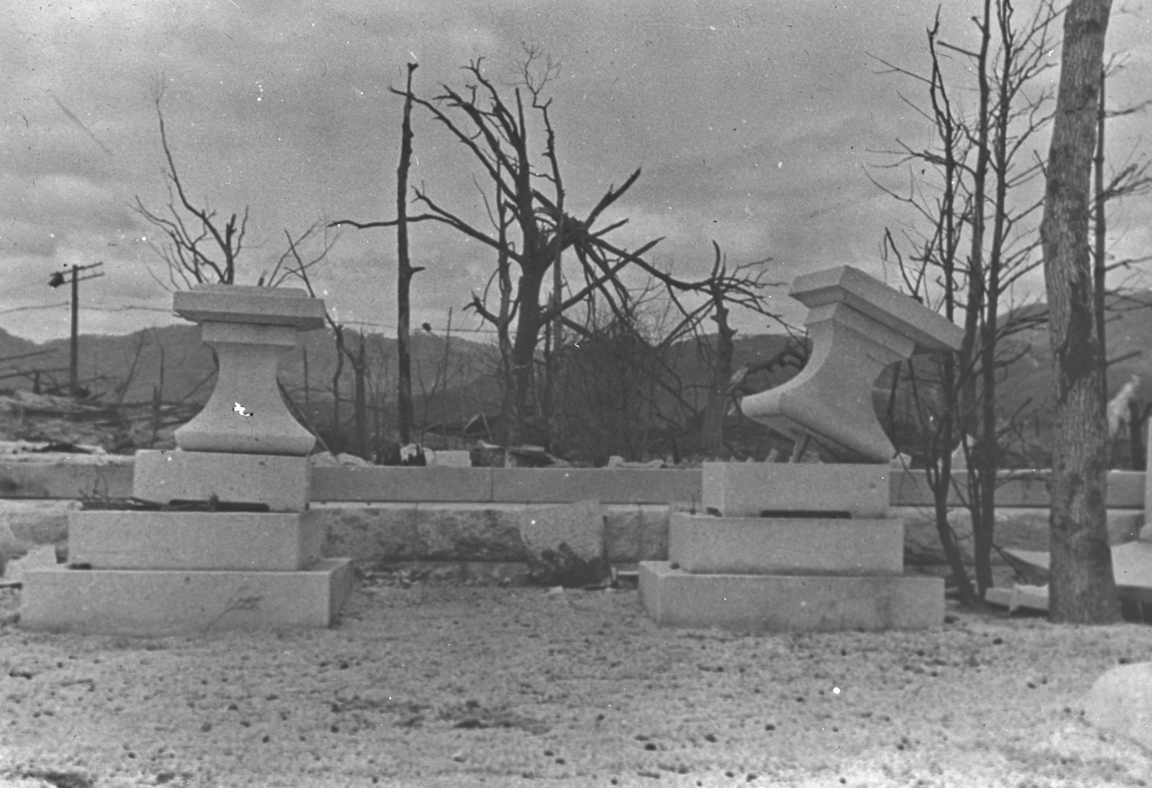 A-Bomb Collection HG 203 ; The gokoku shrine stone lanterns.